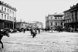 From Collection by Emilii Gautier-Dufayet (1863-1923)